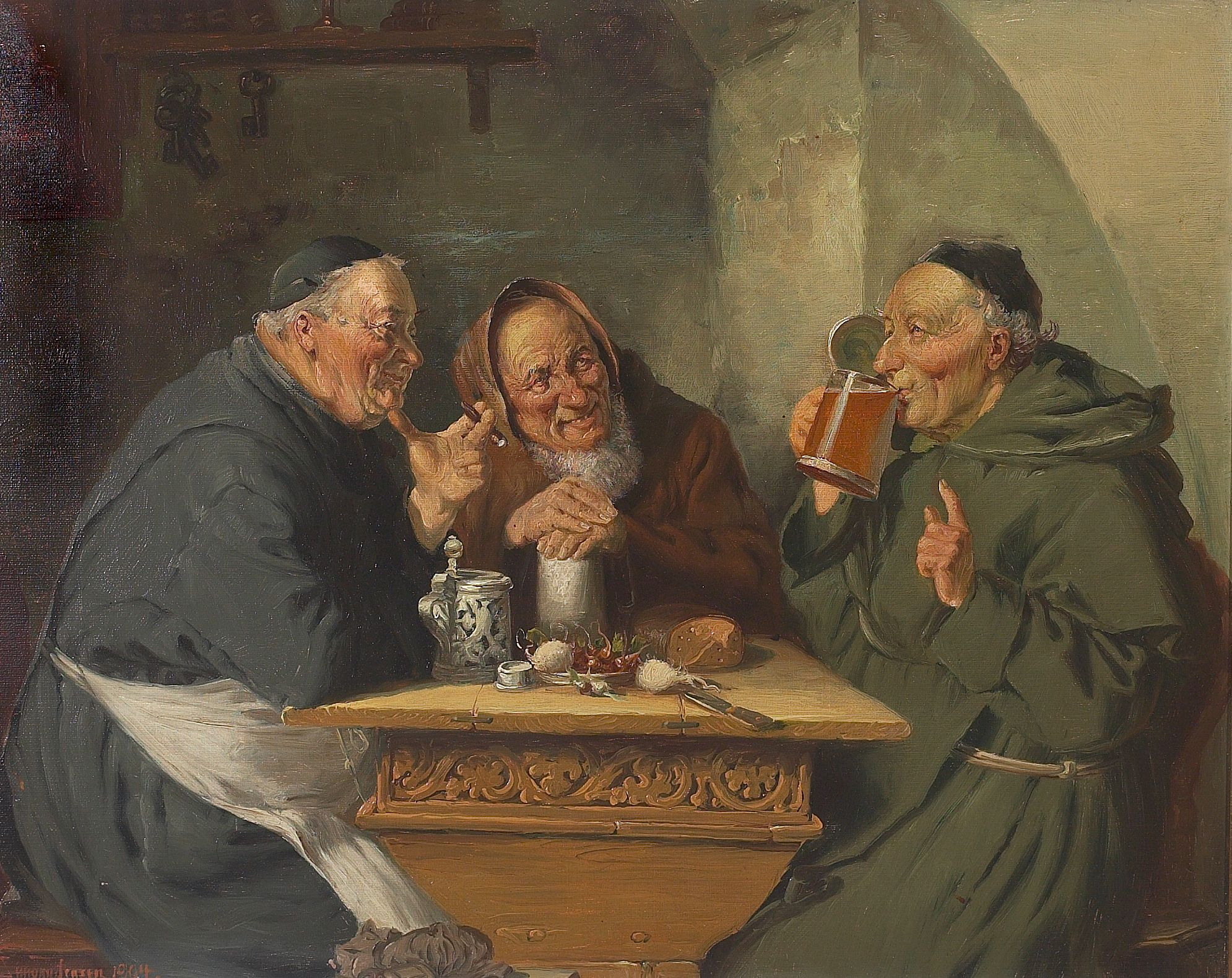 The artist apparently did repeats of this subject in different sizes.